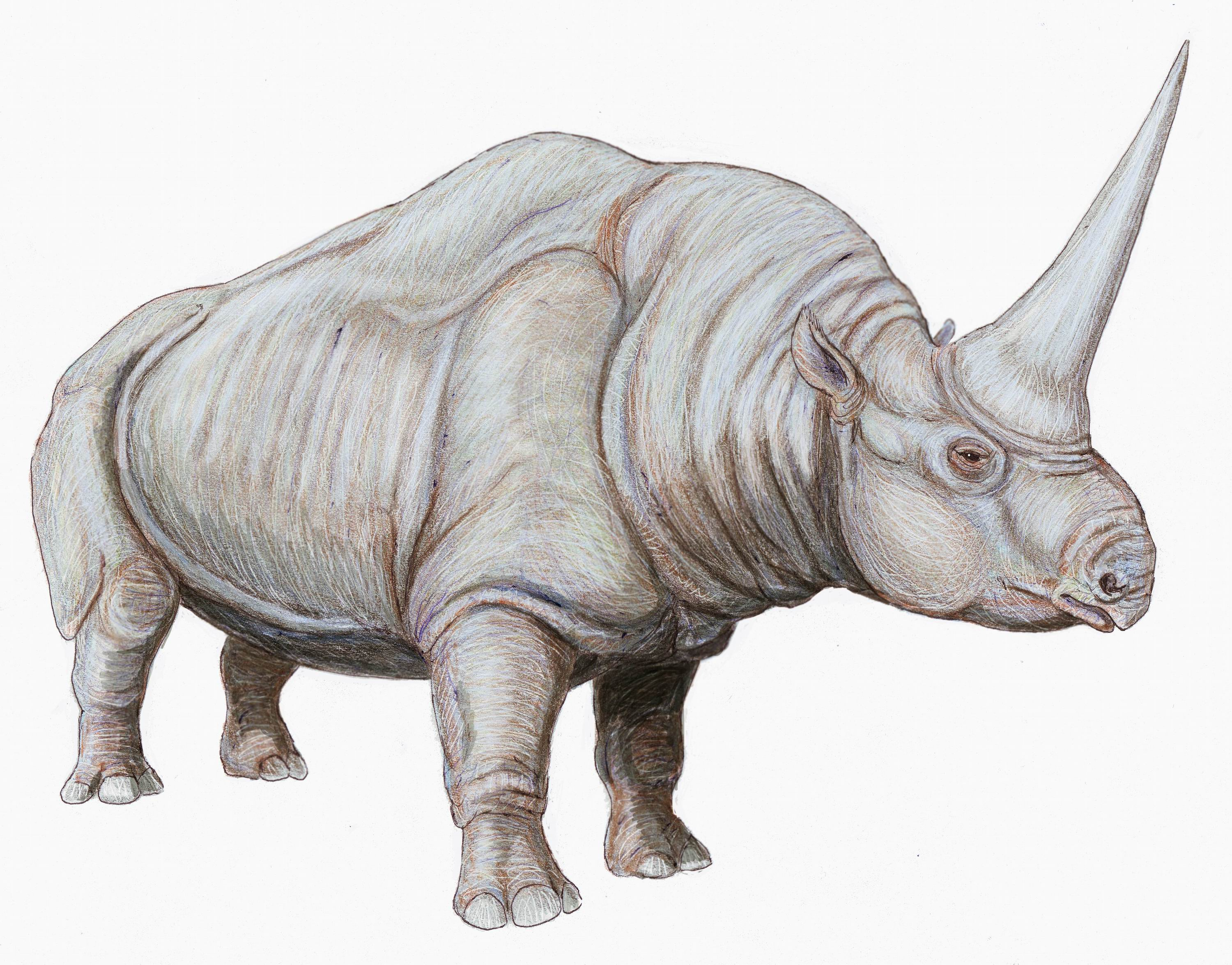 Elasmotherium caucasicum